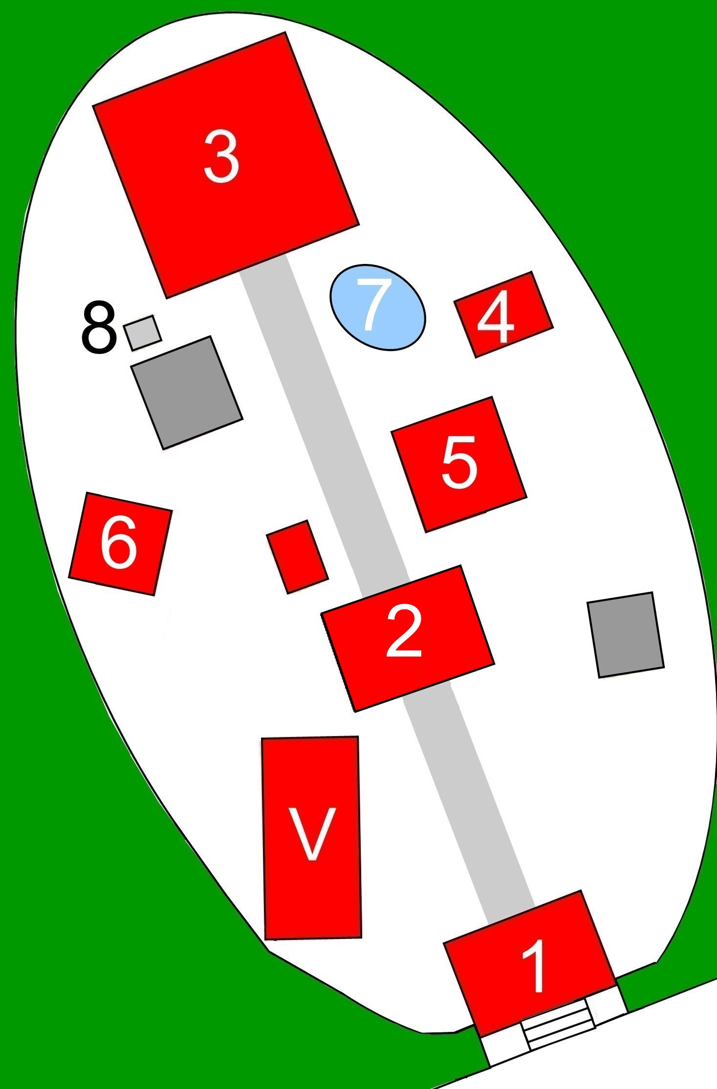 Layout of Kiyomizu-dera (Isumi) Japan